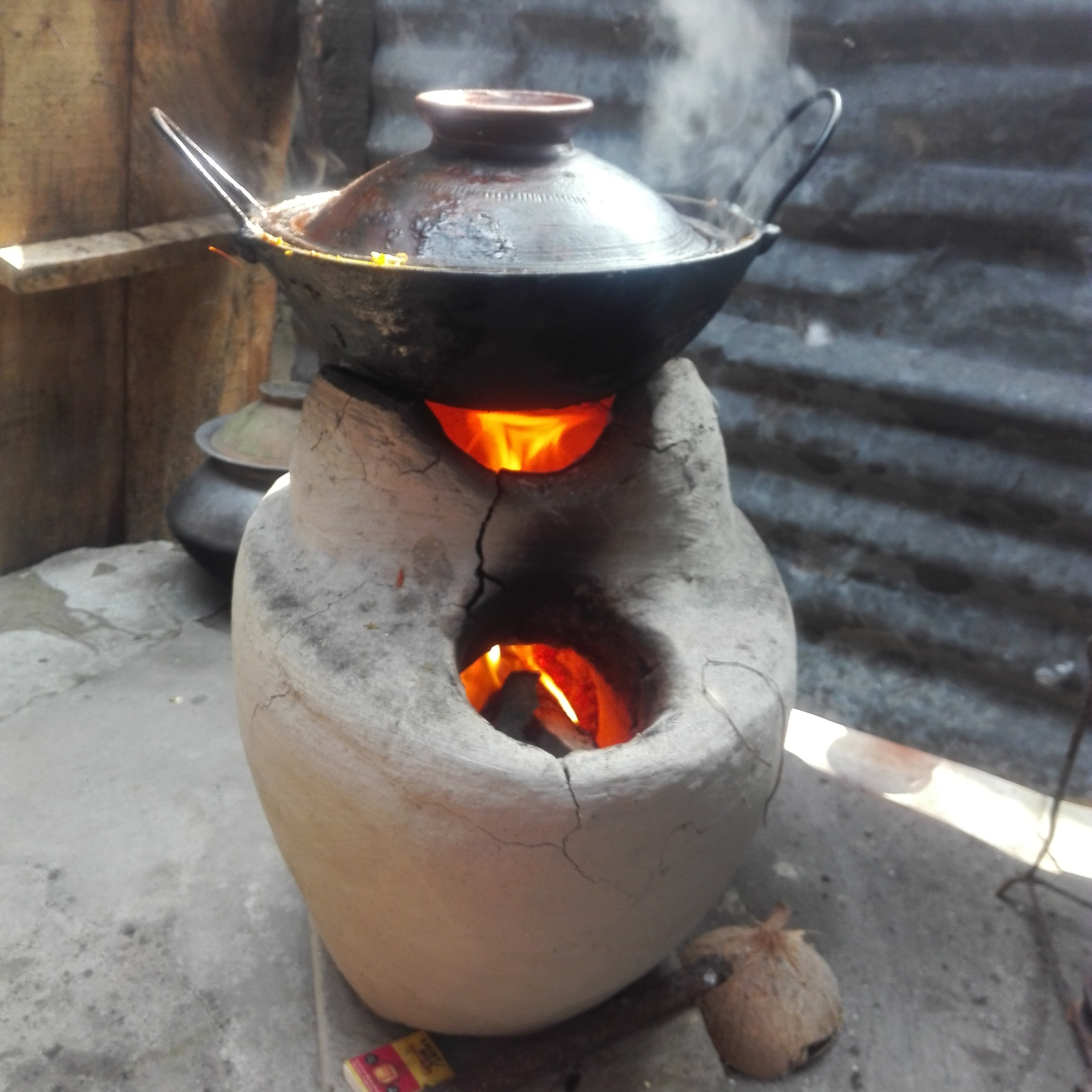 korahi with earthen oven